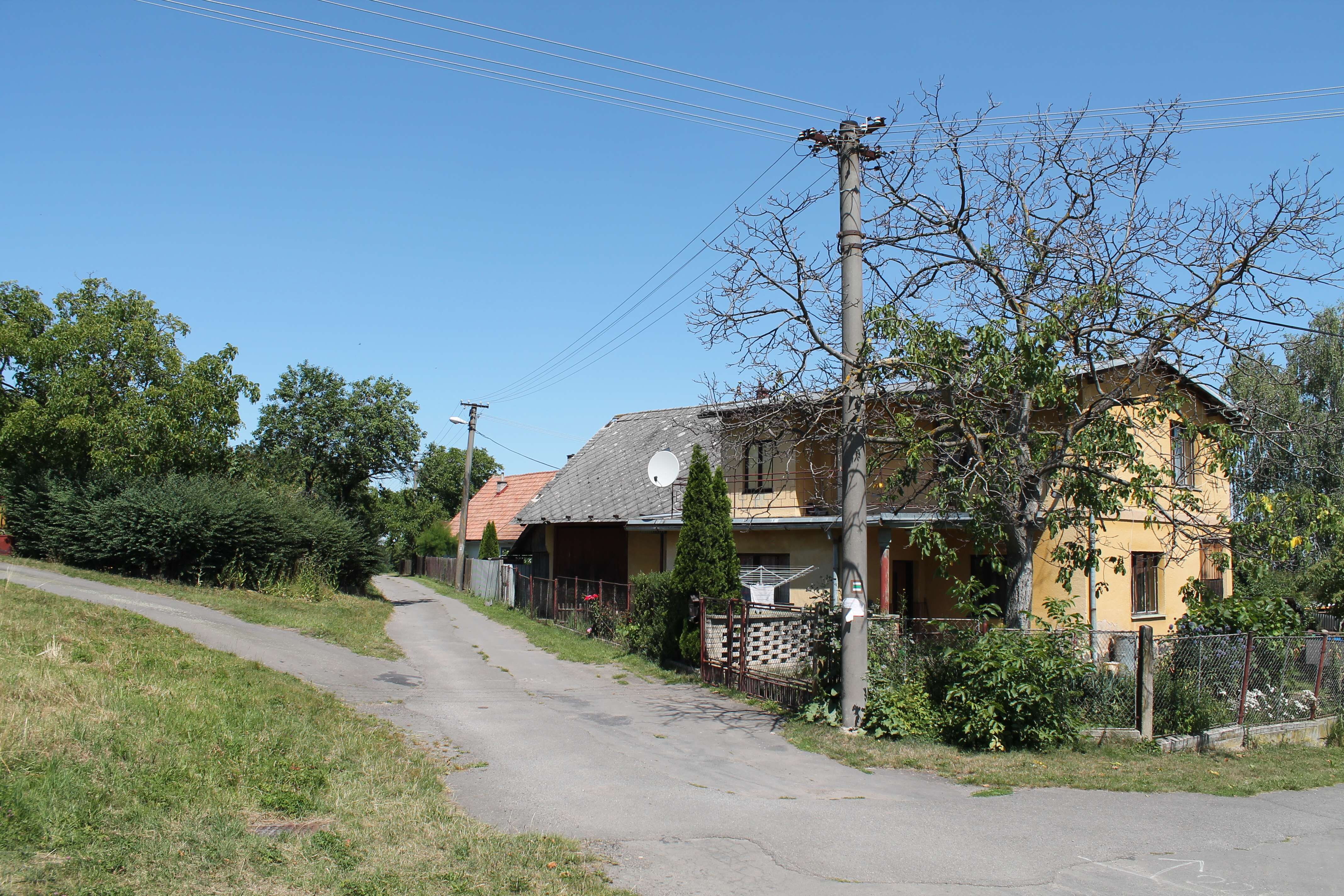 Čejkovice, Mladoňovice, Chrudim District, Czech Republic